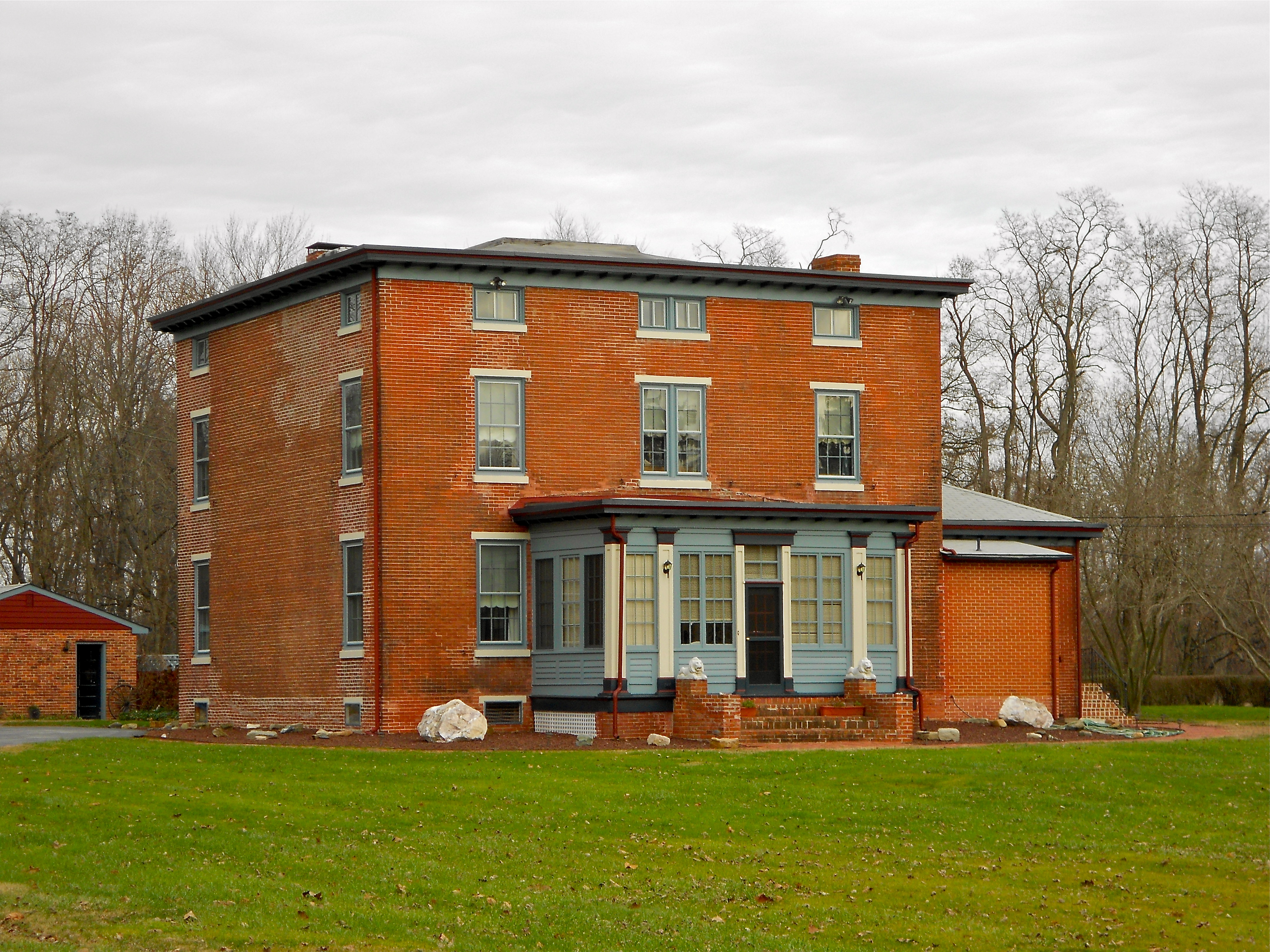 "Chelsea" on the NRHP since April 8, 1982. On Delaware Route 9 in Delaware City, New Castle County, Delaware